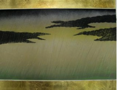 Kaminari Hue in Rain, typical gold leaf chine-colle′ treatment